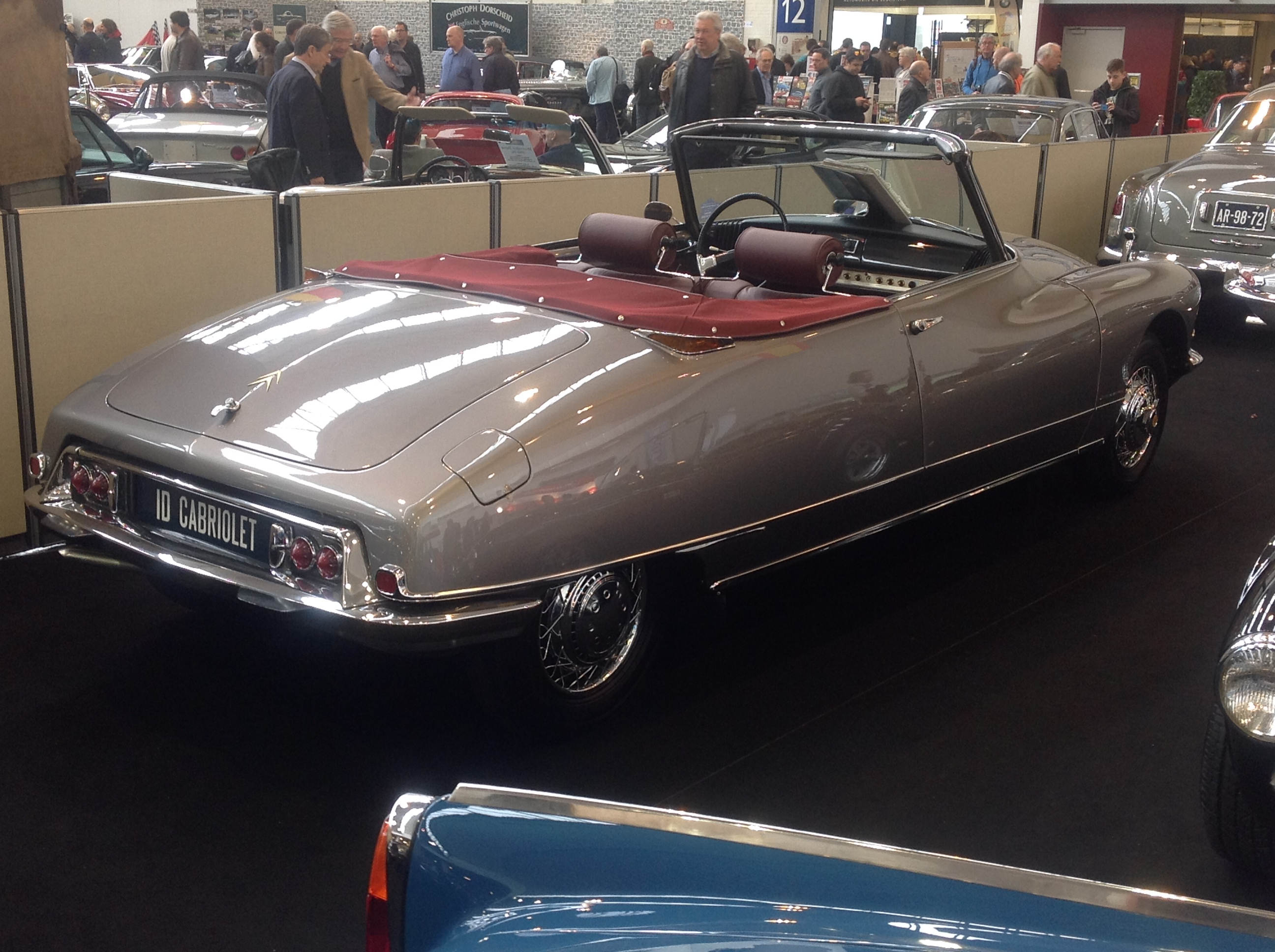 Wonderful. It was there on Friday, but not on Saturday. SOLD!